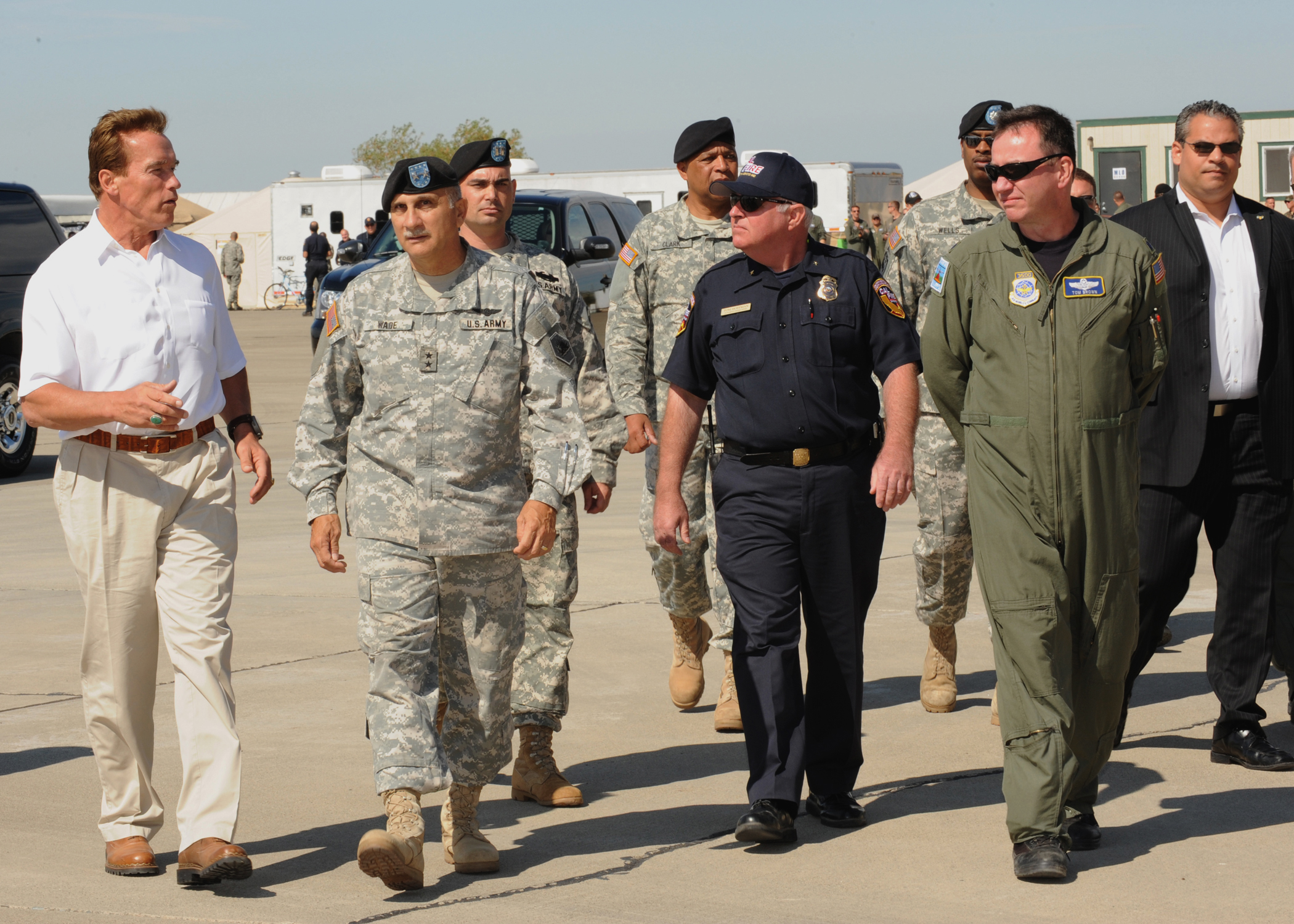 SACRAMENTO, Calif. (4 July 08) California Gov. Arnold Schwarzenegger; Maj. Gen. William H. Wade II, adjutant general of the California National Guard; Staff Chief Tom Hoffman, modular airborne firefighting system liaison officer for the California Department of Forestry and Fire Protection; and Lt. Col. Tom Brown, commander of the 145th Air Expeditionary Squadron of the North Carolina Air National Guard walk across the tarmac during the governor's visit with members of the 302nd Air Expeditionary Group. The 302nd AEG, comprised of aircraft from the Air Force Reserve, Air National Guard, Navy and Marine Corps, provides unique capabilities and is part of a unified military support effort of U.S. Northern Command to provide assistance to the U.S. Forest Service, CAL FIRE, and the National Interagency Fire Center. U.S. Northern Command continues to closely monitor the California wildfires to anticipate additional requests for Department of Defense assistance to local, federal, and state civil authorities. U.S. Navy photo by Petty Officer 1st Class Steven J. Weber (Released)